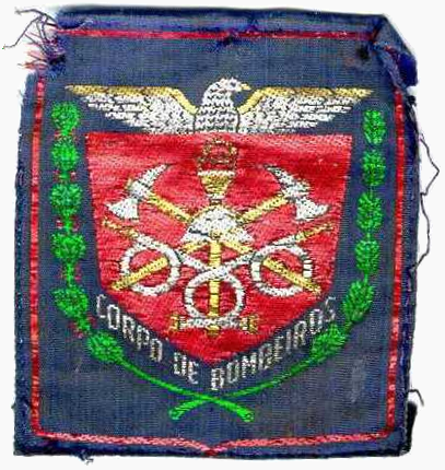 Old Badge of Firefighters of Parana - Brazil.